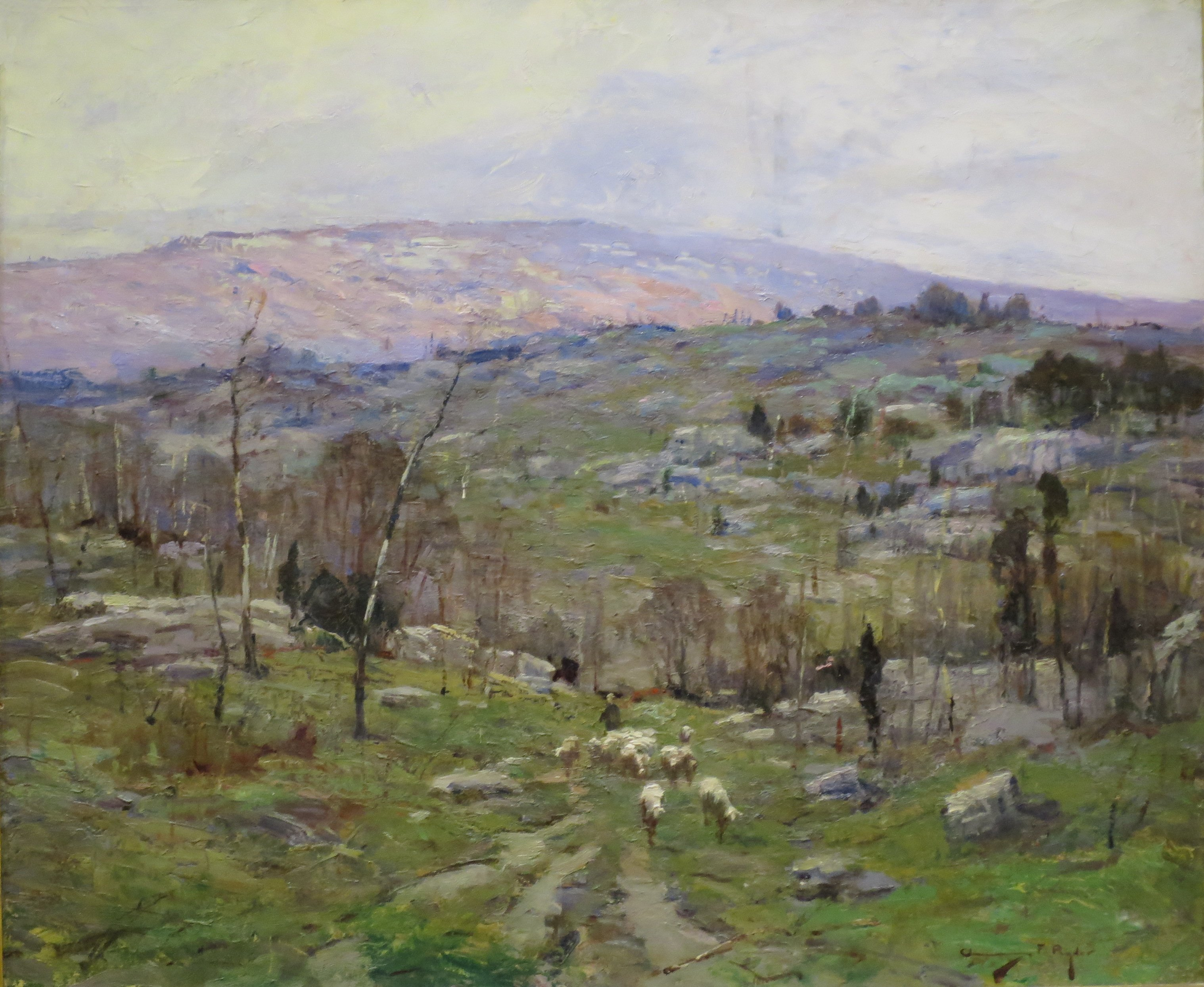 Shepherds with Sheep by Chauncey Foster Ryder, oil on canvas, El Paso Museum of Art